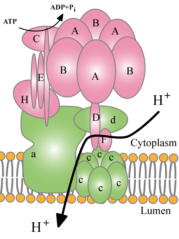 I made this image in Adobe Illustrator. I am releasing it to the public domain.